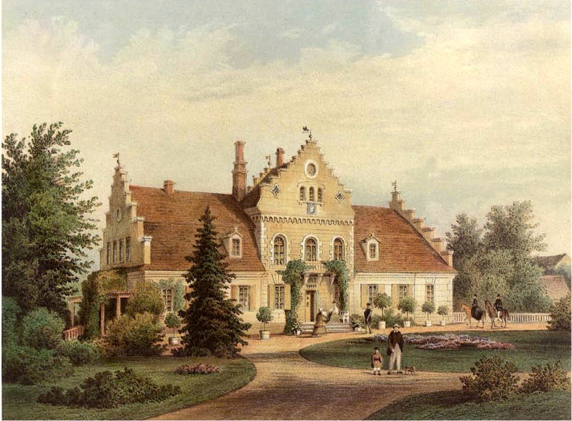 Palace in Kolęda